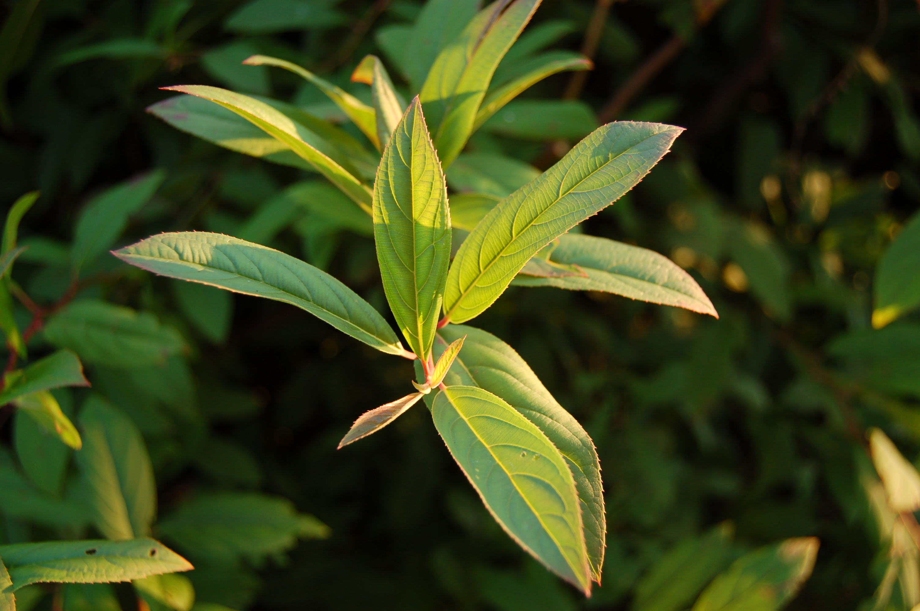 Photograph of the leaves of the Virginia Sweetspire (Itea virginica 'Henry's Garnet') . Photo taken at the Tyler Arboretum where it was identified.